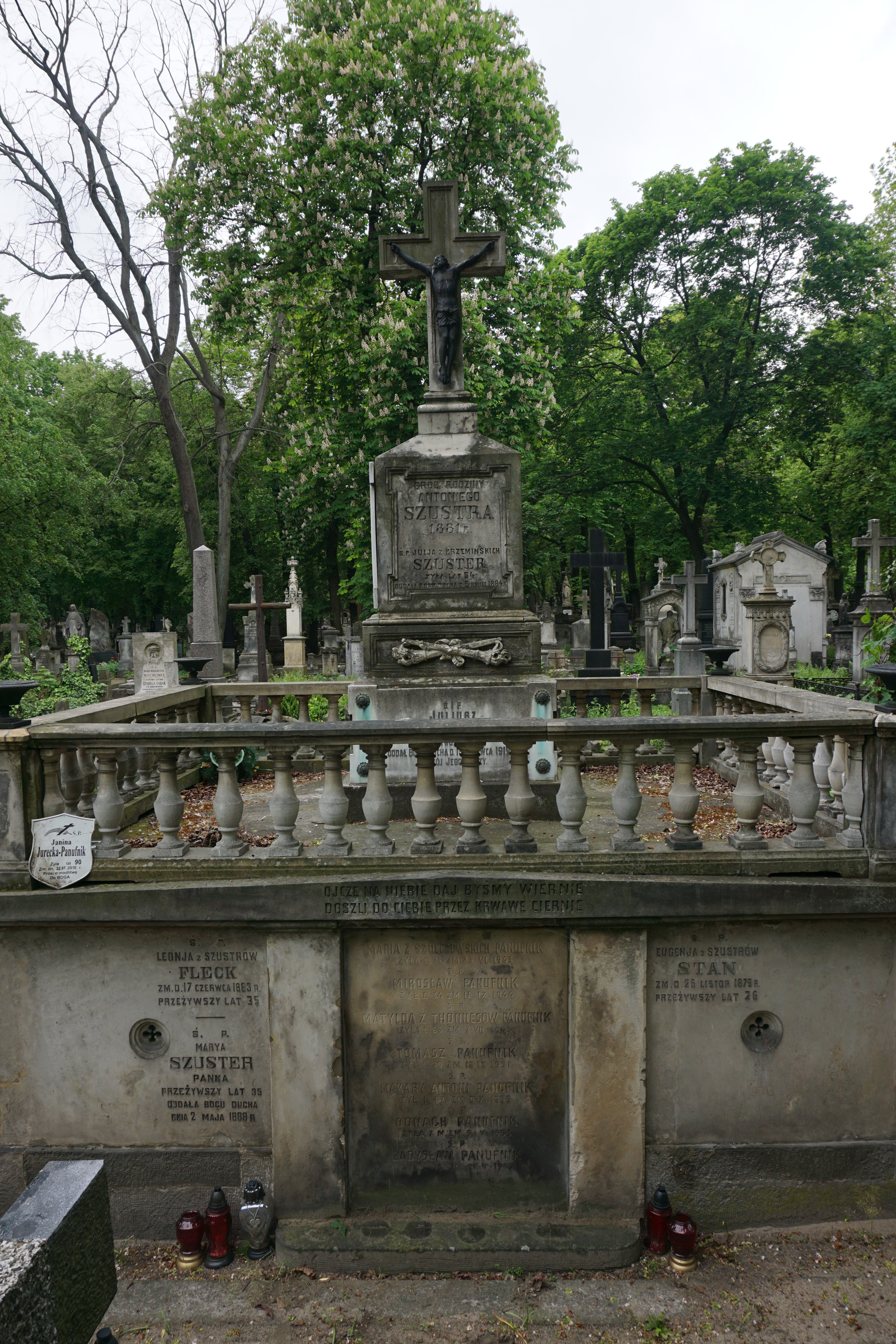 The grave of Ładysław Panufnik at the Powązki Cemetery (section 22, row 5, grave 25, 26, 27)